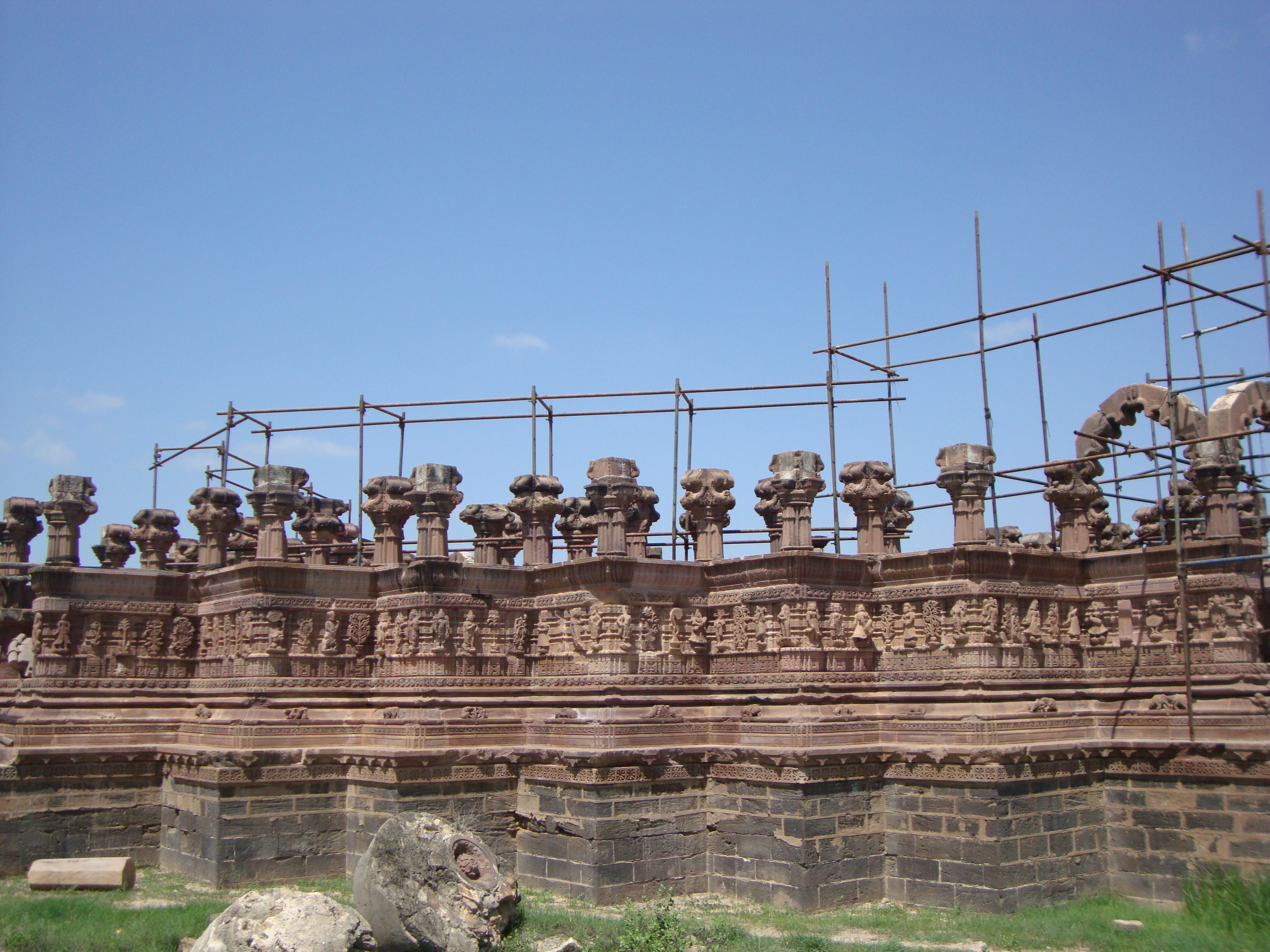 Rao Lakhpatji's Chhatri being renovated - side view